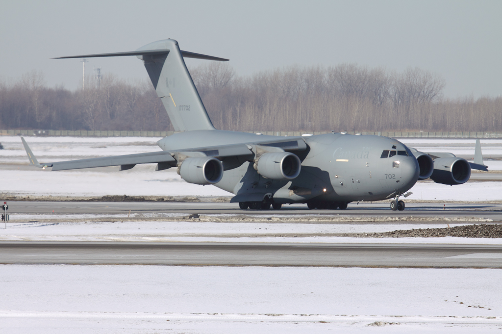 Canadian Air Force CC-177 Globemaster III departing from Montreal's Trudeau International Airport after having brought back Haitian Canadian's repatriating back to Canada after the devastating earthquake in Haiti. This is part of the ongoing Canadian Armed Forces operation HESTIA, Canada's military response to the Haitian Disaster